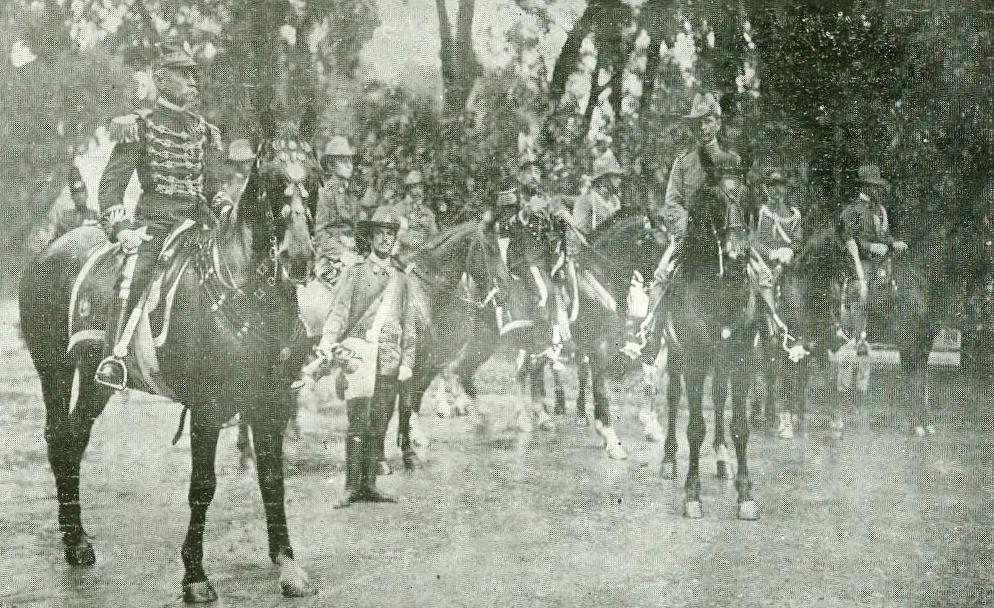 General Bellarmino de Mendonça of Brazilian Army, 1910.